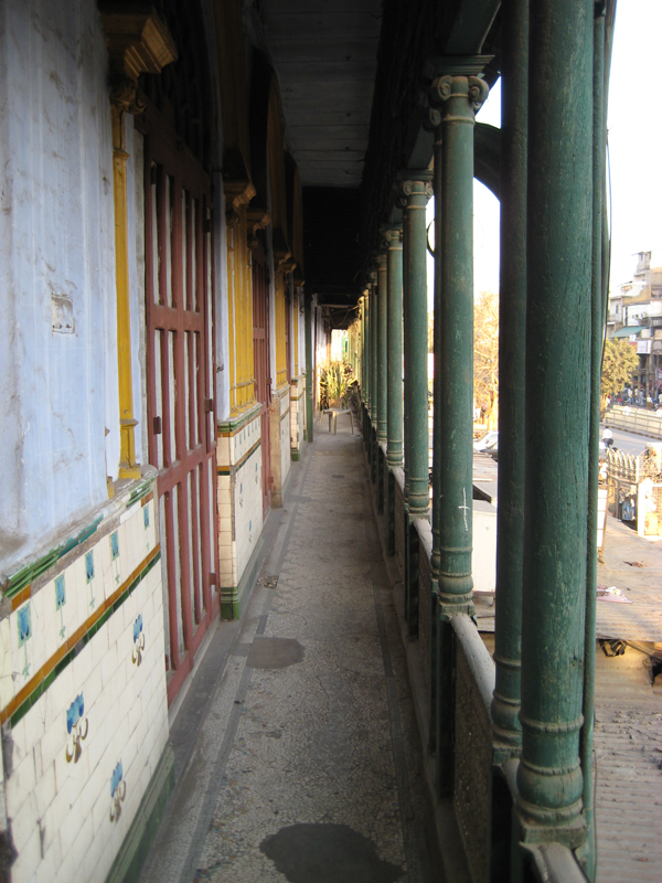 Veranda of the Chunnammal Haveli at Chandni Chowk